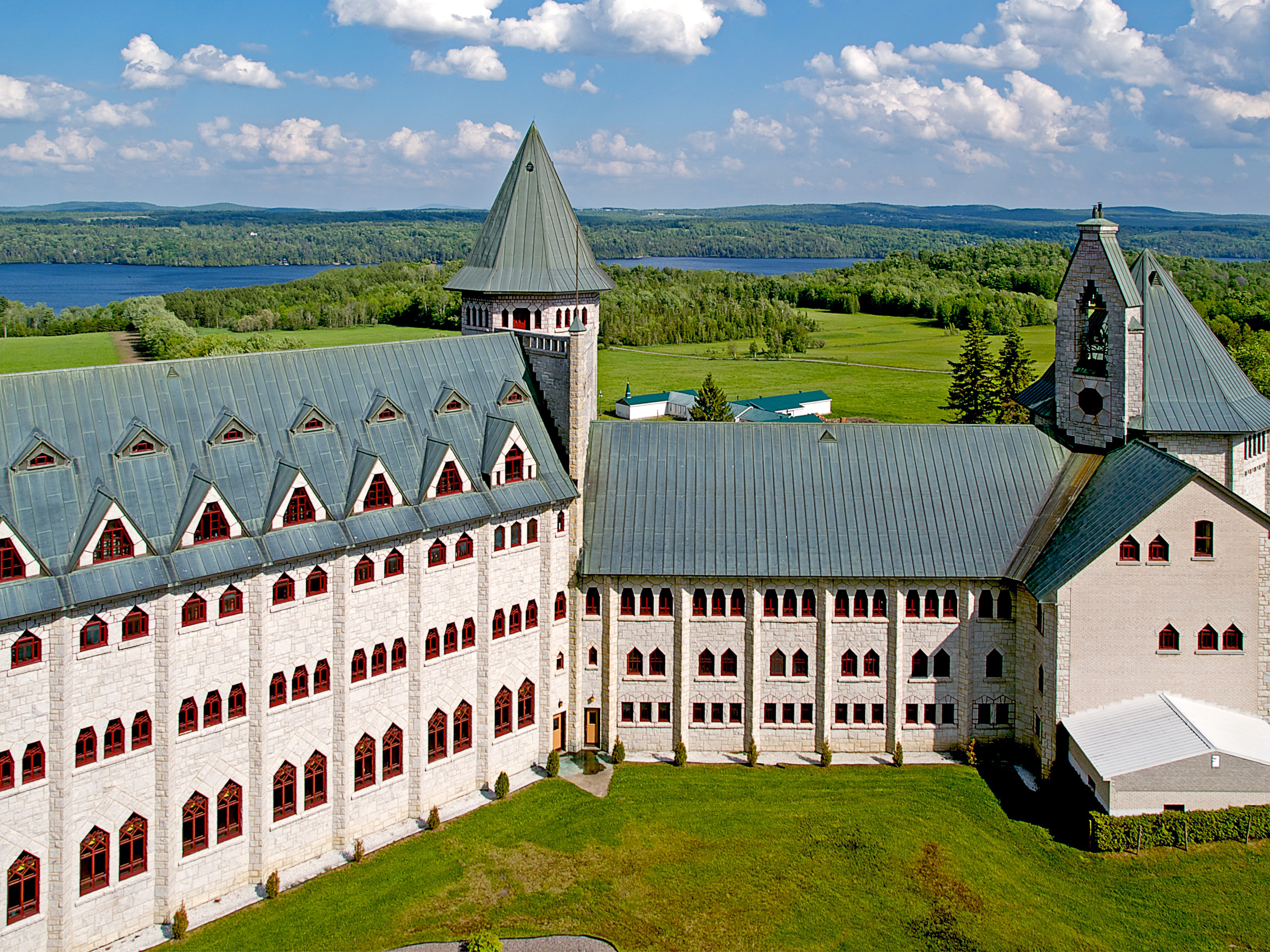 Saint Benedict Abbey, Saint-Benoît-du-Lac, taken on June 8, 2008. Uploaded to Flickr by its author, colros (Colin Rose), under the Creative Commons Attribution-Share Alike 2.0 Generic license.